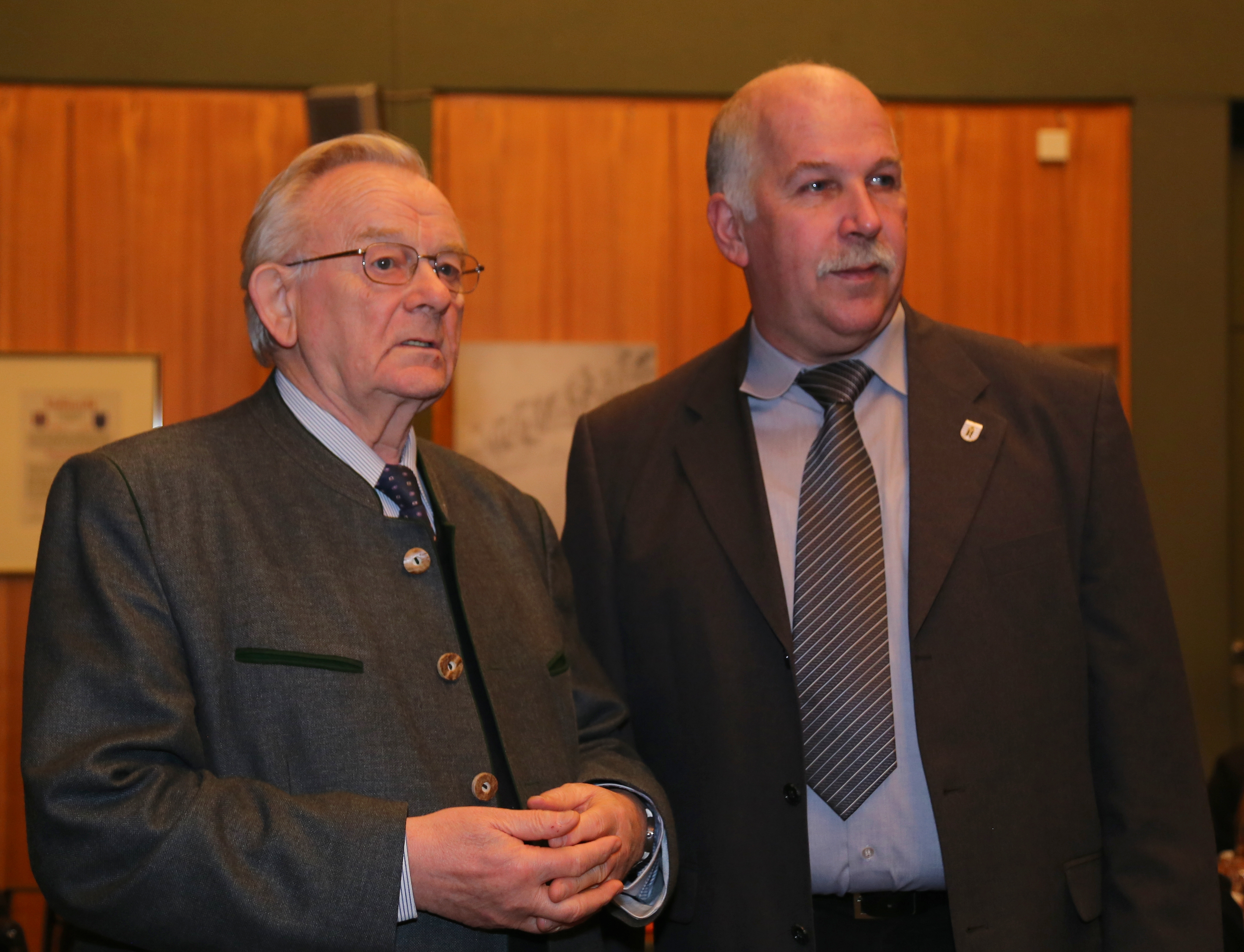 The 13th Political Ash Wednesday (Politischer Aschermittwoch) of the CDU-Kreisverband Steinfurt in Recke, Kreis Steinfurt, North Rhine-Westphalia, Germany. Here the former CDU Members of the Landtag of North Rhine-Westphalia Josef Wilp (left) and Wolfgang Kölker.